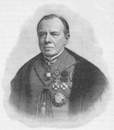 Jean-Baptiste Abbeloos (1836-1906), rector of the Catholic University of Leuven (1888-1897).